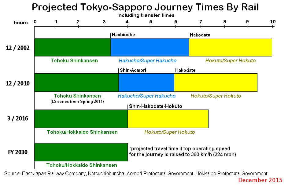 This bar chart shows projected journey times by train between Tokyo and Sapporo, as the Tohoku and Hokkaido Shinkansen is constructed/extended.